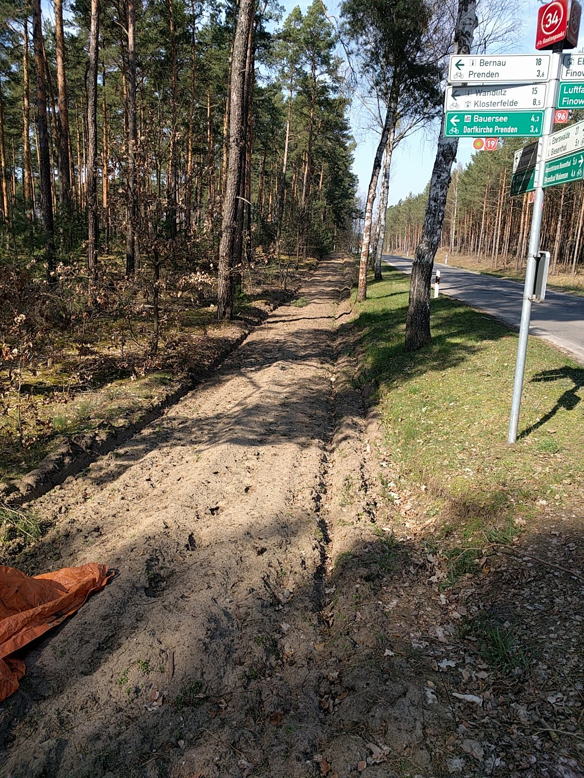 Fire break next to the road from Biesenthal to Sophienstätt, Barnim, Brandenburg.